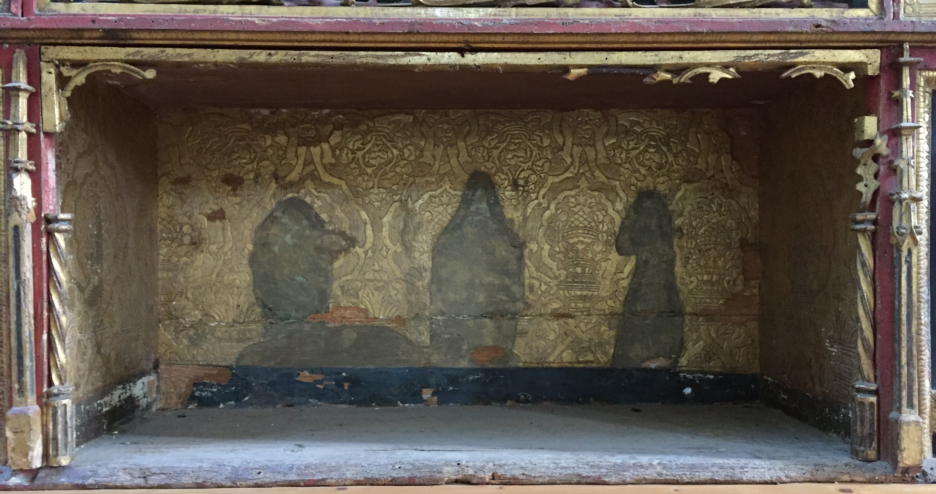 Shrine of the St. Ursula Altar from Meerburg/Bela Church, today in the Mountain Church of Sighișoara. The outlines of statues are still visible which were removed during the Reformatory beeldenstorm.